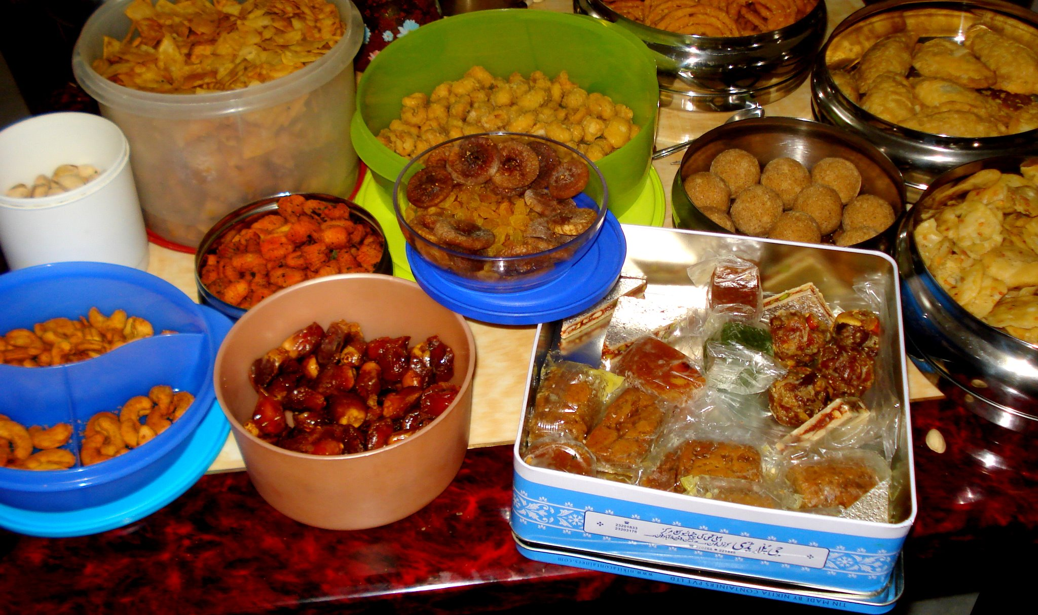 Diwali Sweets